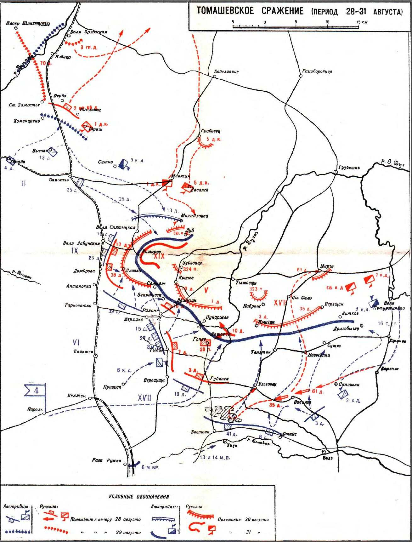 Plate 16. Tomaševski battle (Battle of Komarów in English) between 28-31 August (1914).